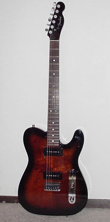 A Fender Custom Shop Tele Jr. with its pickguard removed